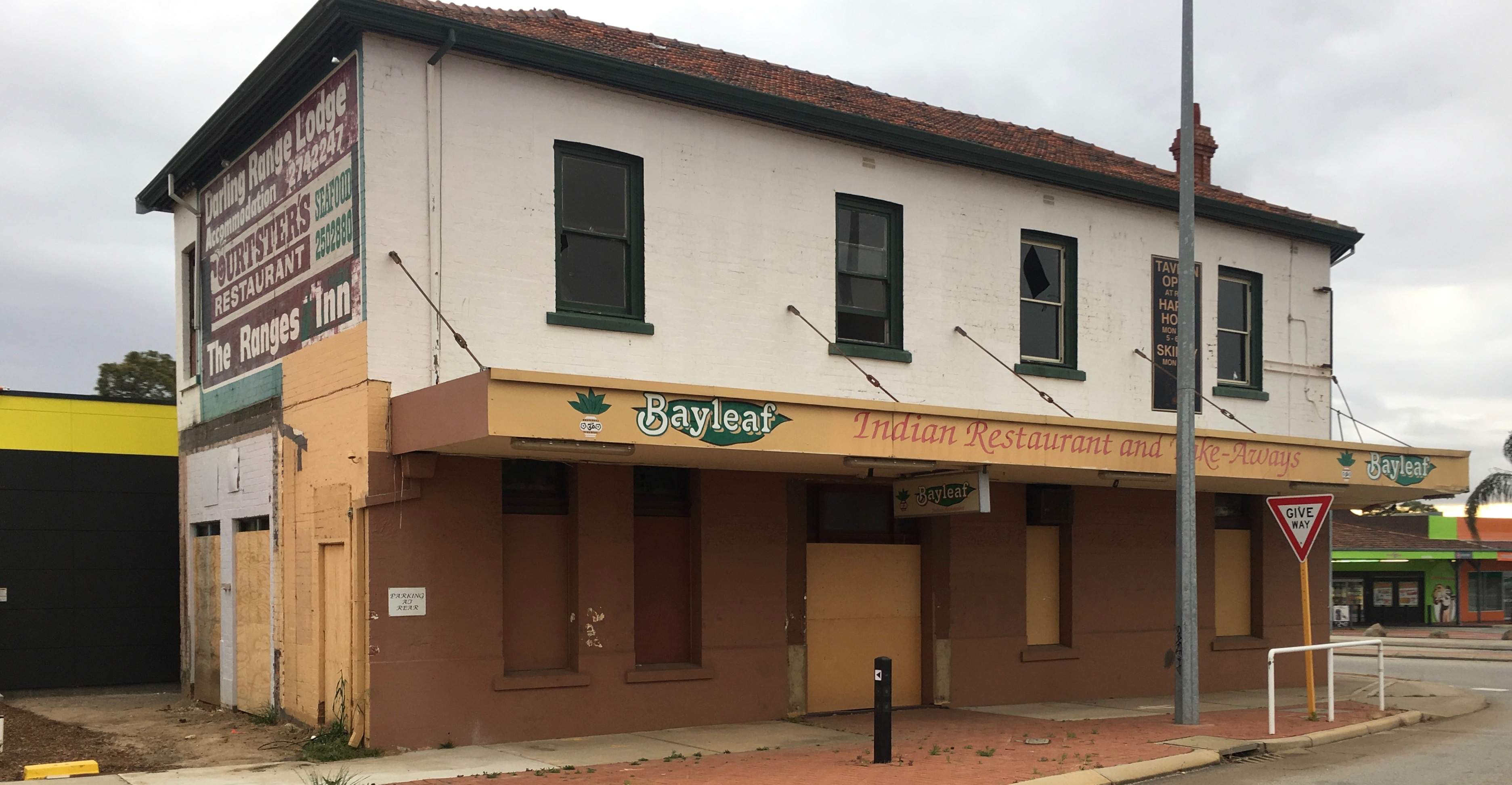 Darling Range Hotel on the 1st October 2018 from Great Eastern Highway